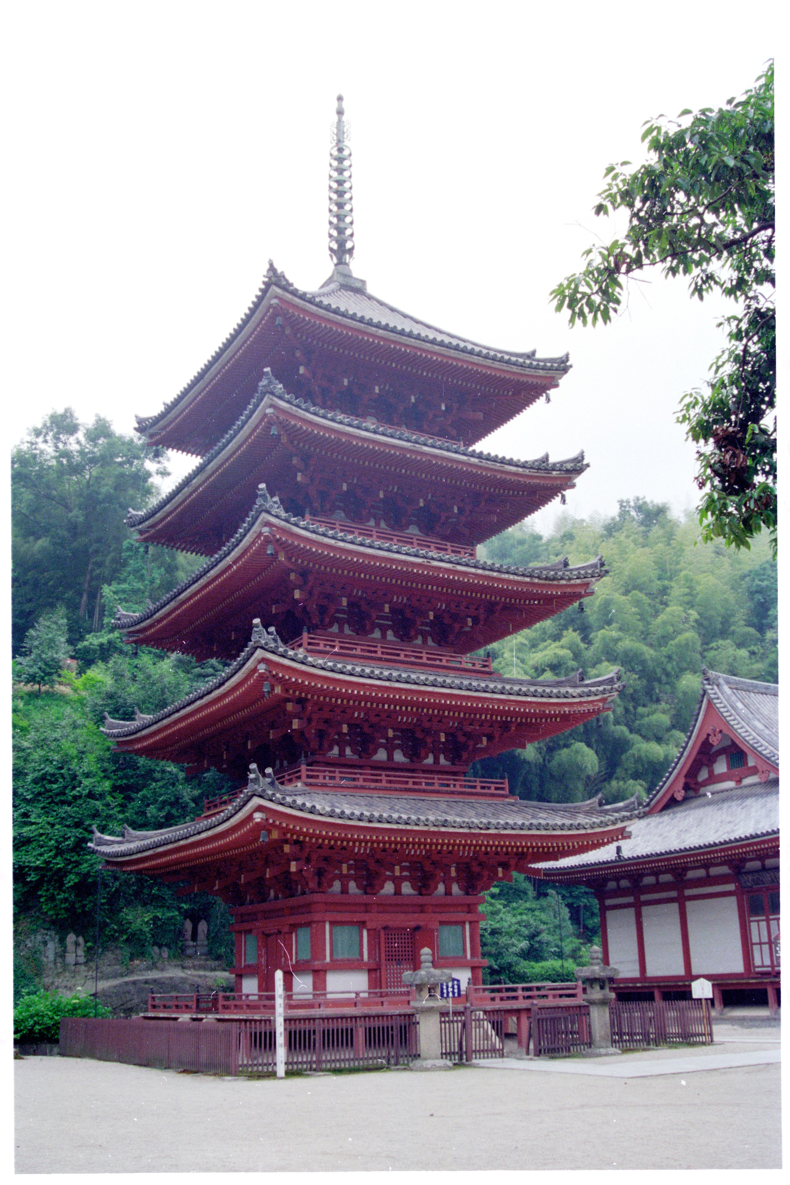 Five Story Pagoda, Myoōin, Fukuyama, Hiroshima, Japan. A National Treasure.